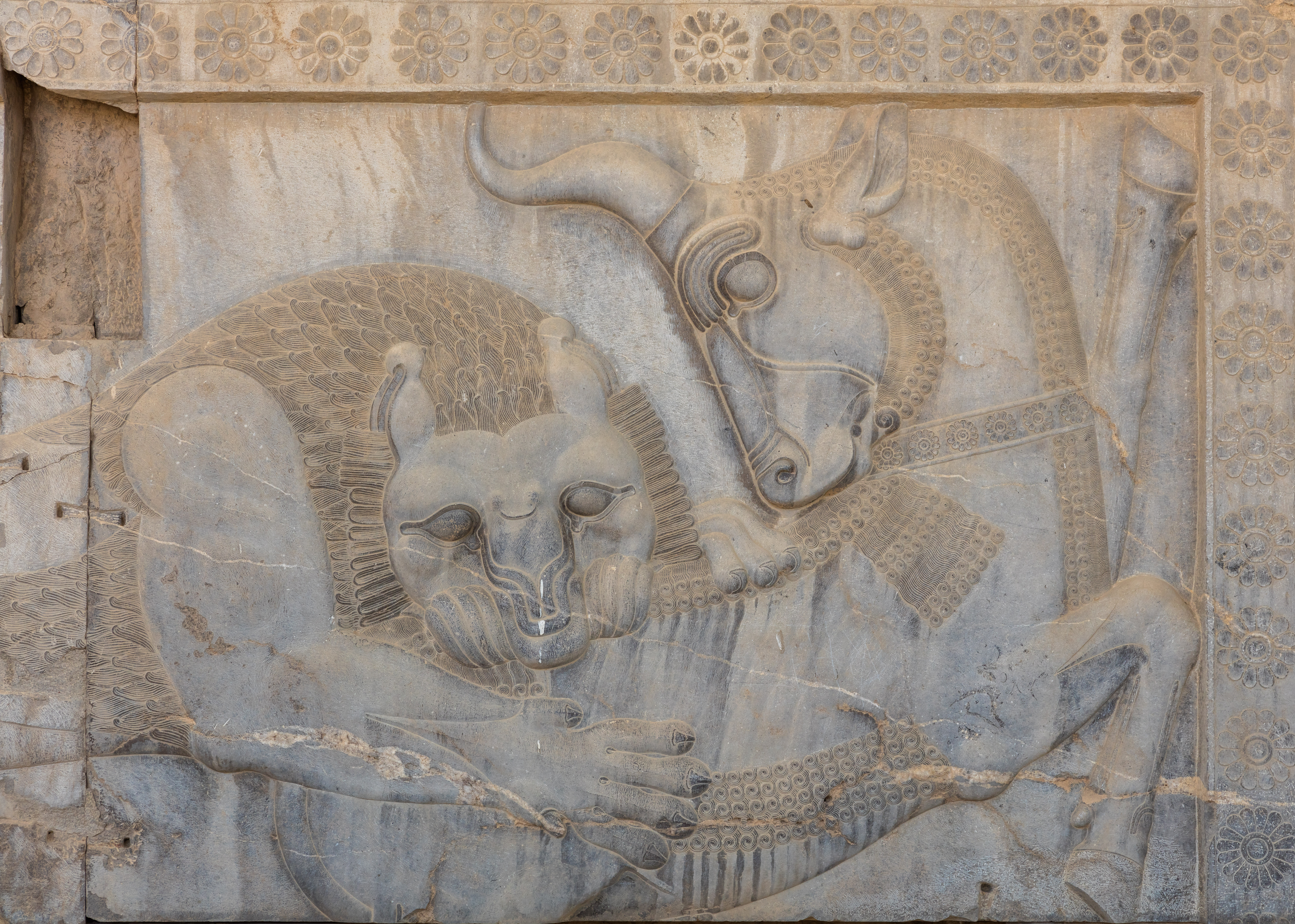 Persepolis, Iran